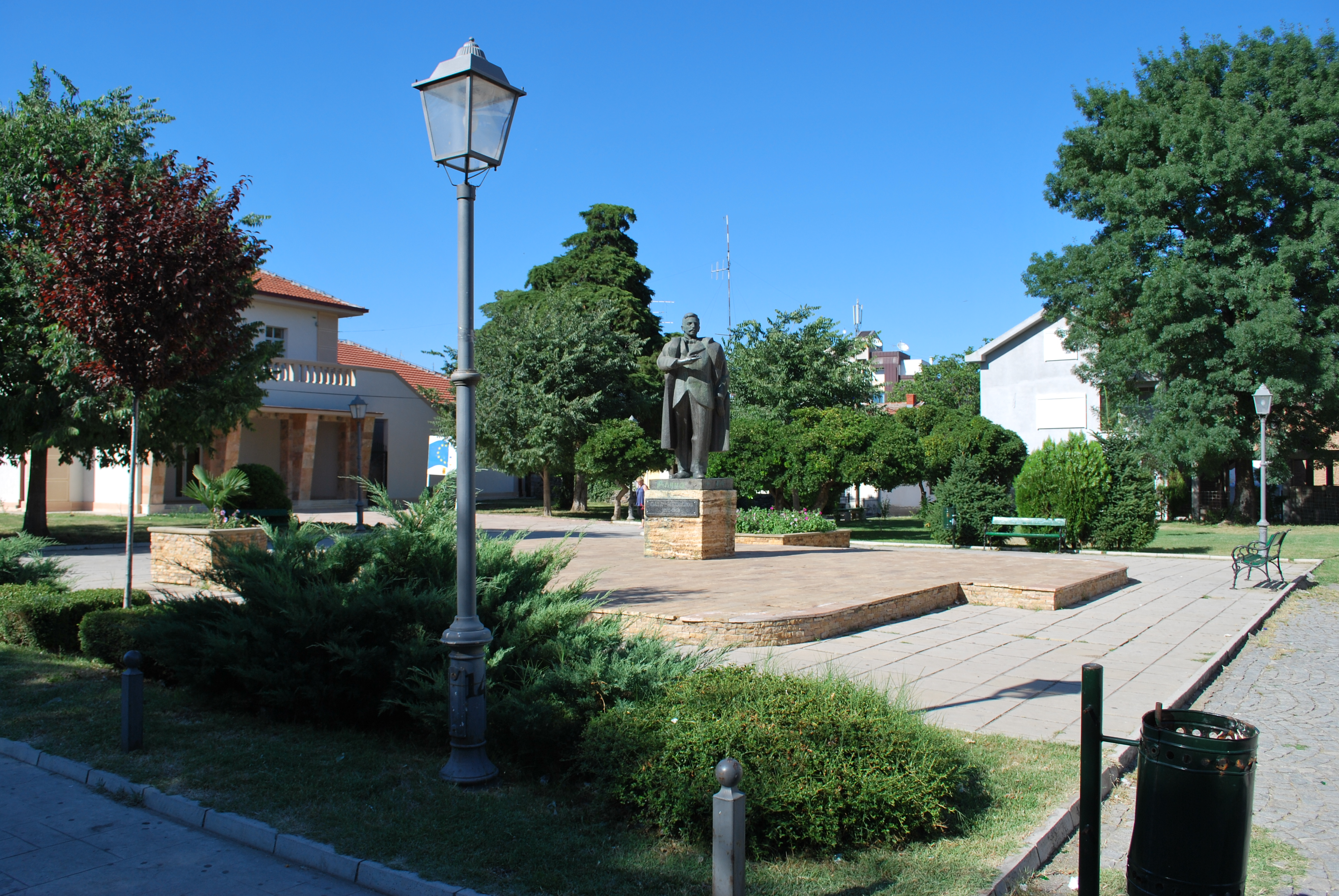 Gevgelija, Macedonia